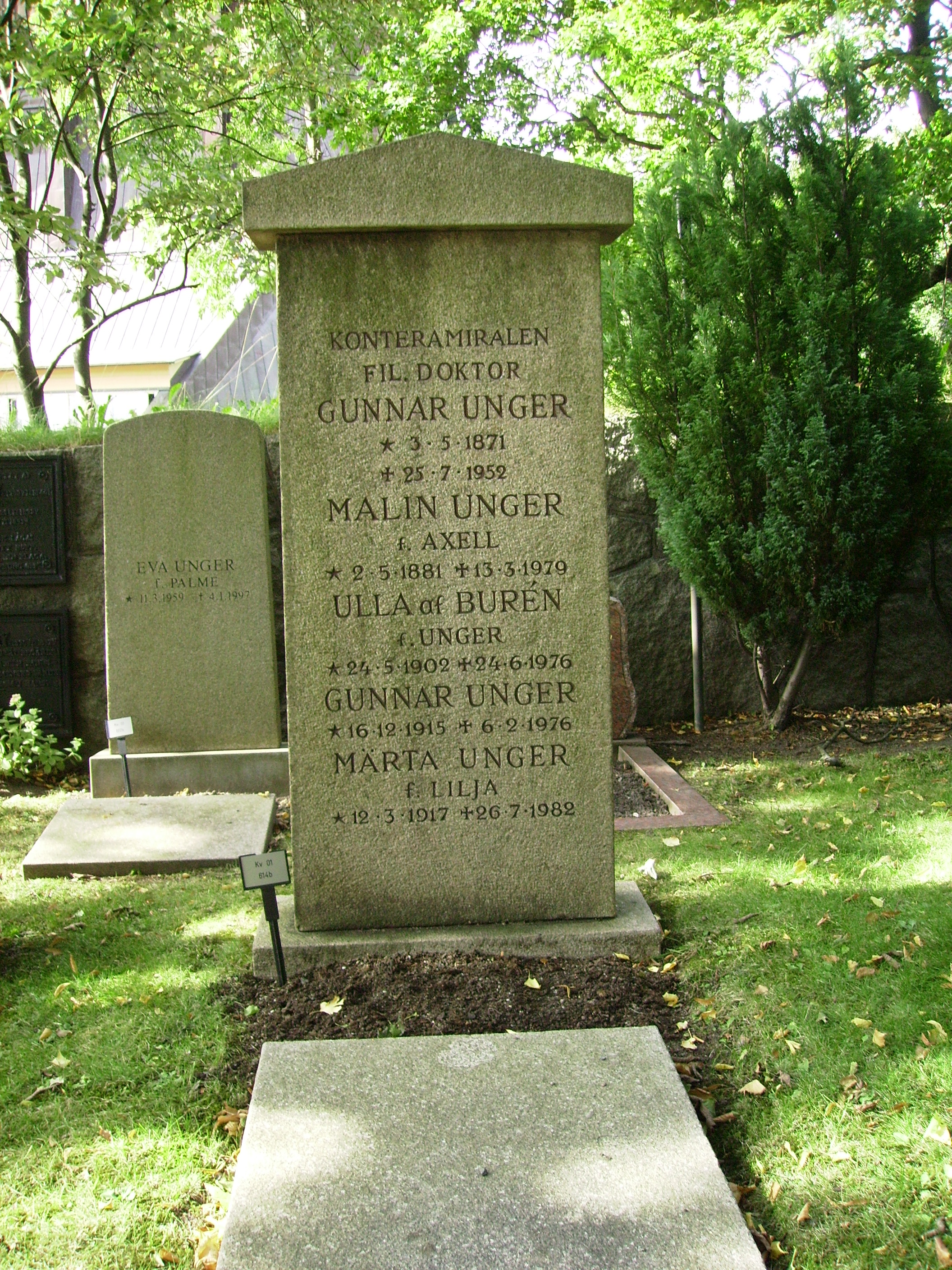 Picture of Gunnar Unger's (admiral) grave at Galärvarvskyrkogården in Stockholm